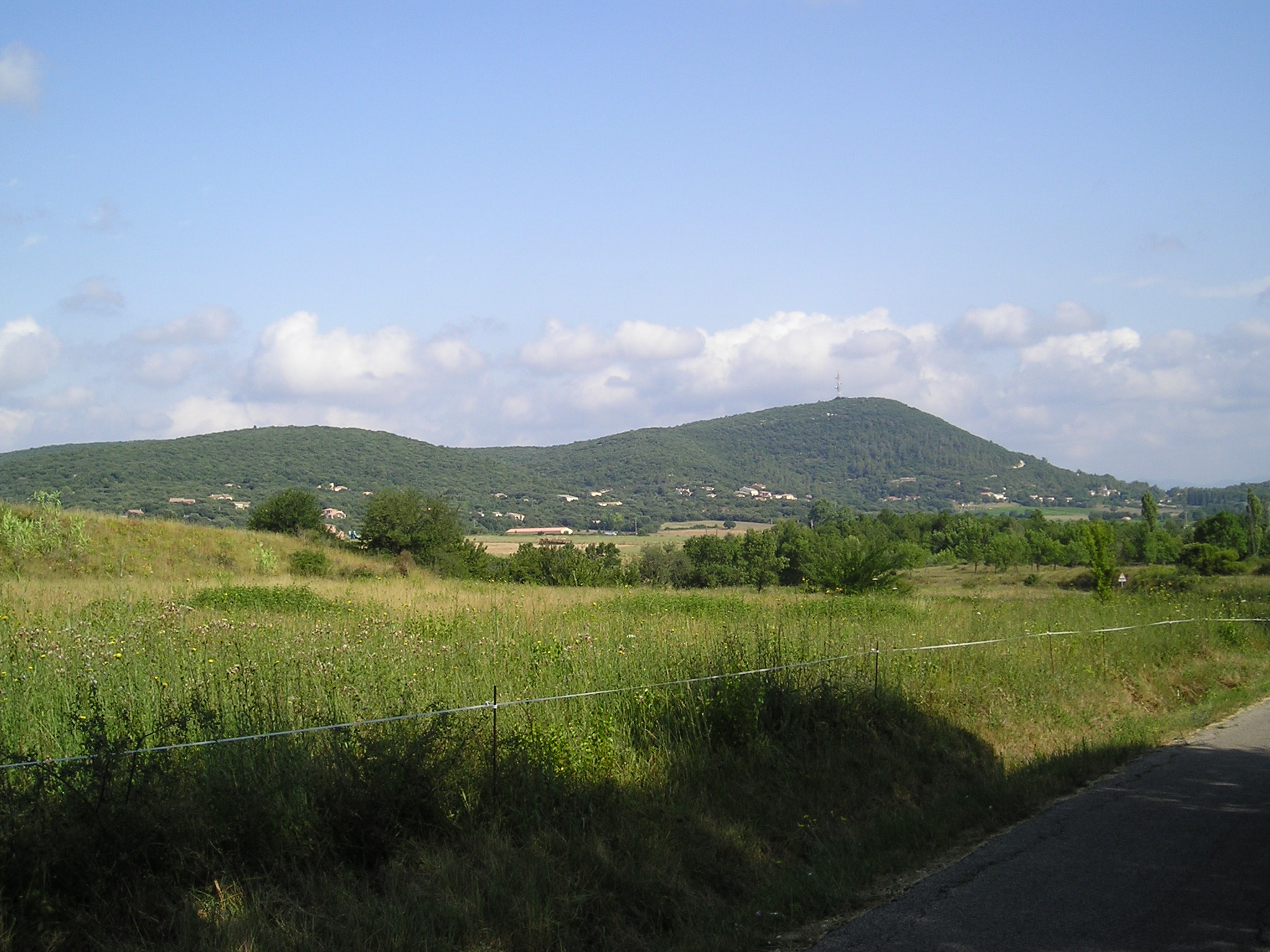 In Western part of La Boissière (Hérault), the main summit of the commune, the Puech Bartelié, 367 meters and its telecommunication tower. At its feet, houses and little appartment-house who are lining up to the main village (hidden on the right, north direction).